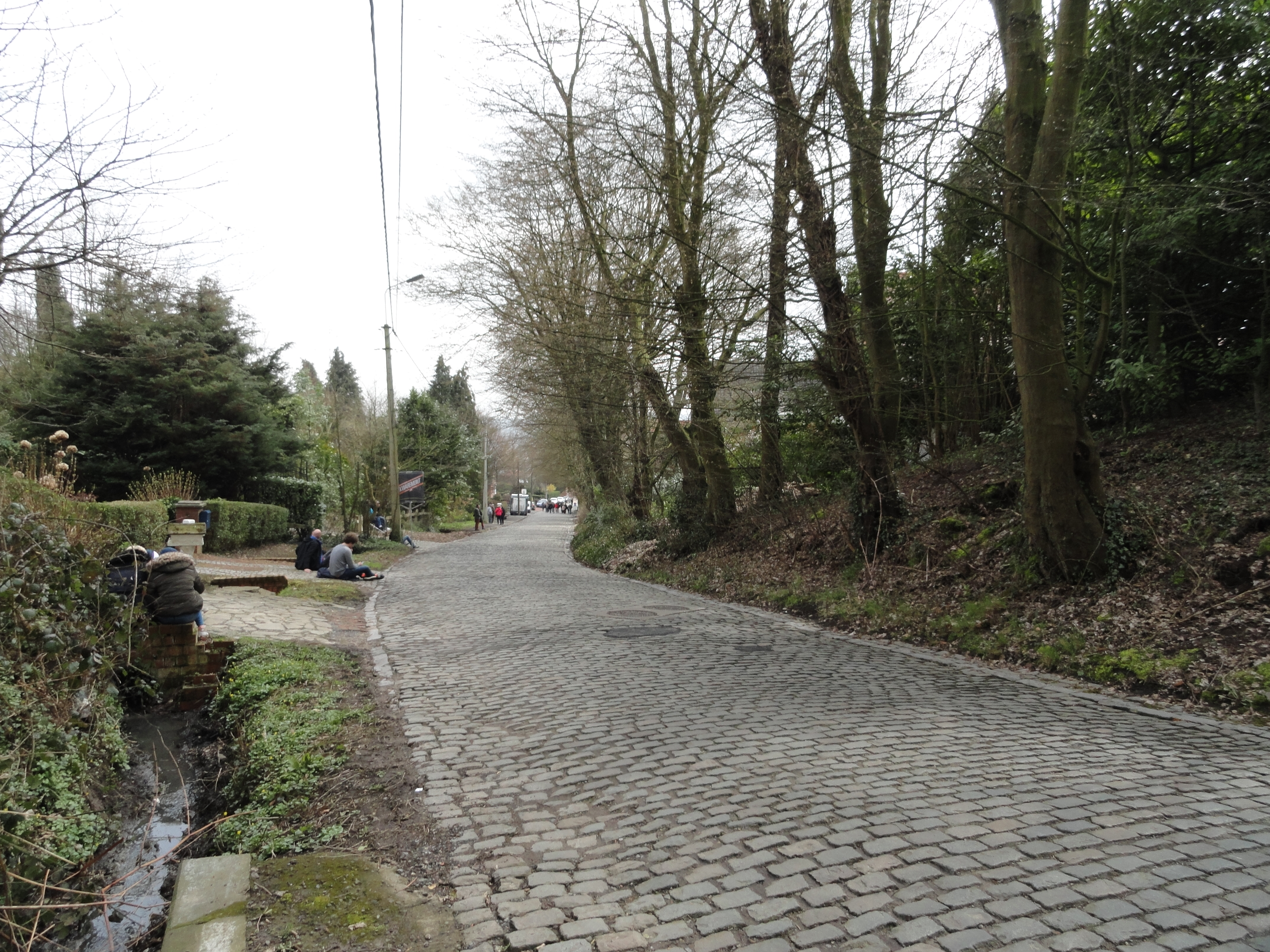 Kruisberg during Tour of Flanders 2018.